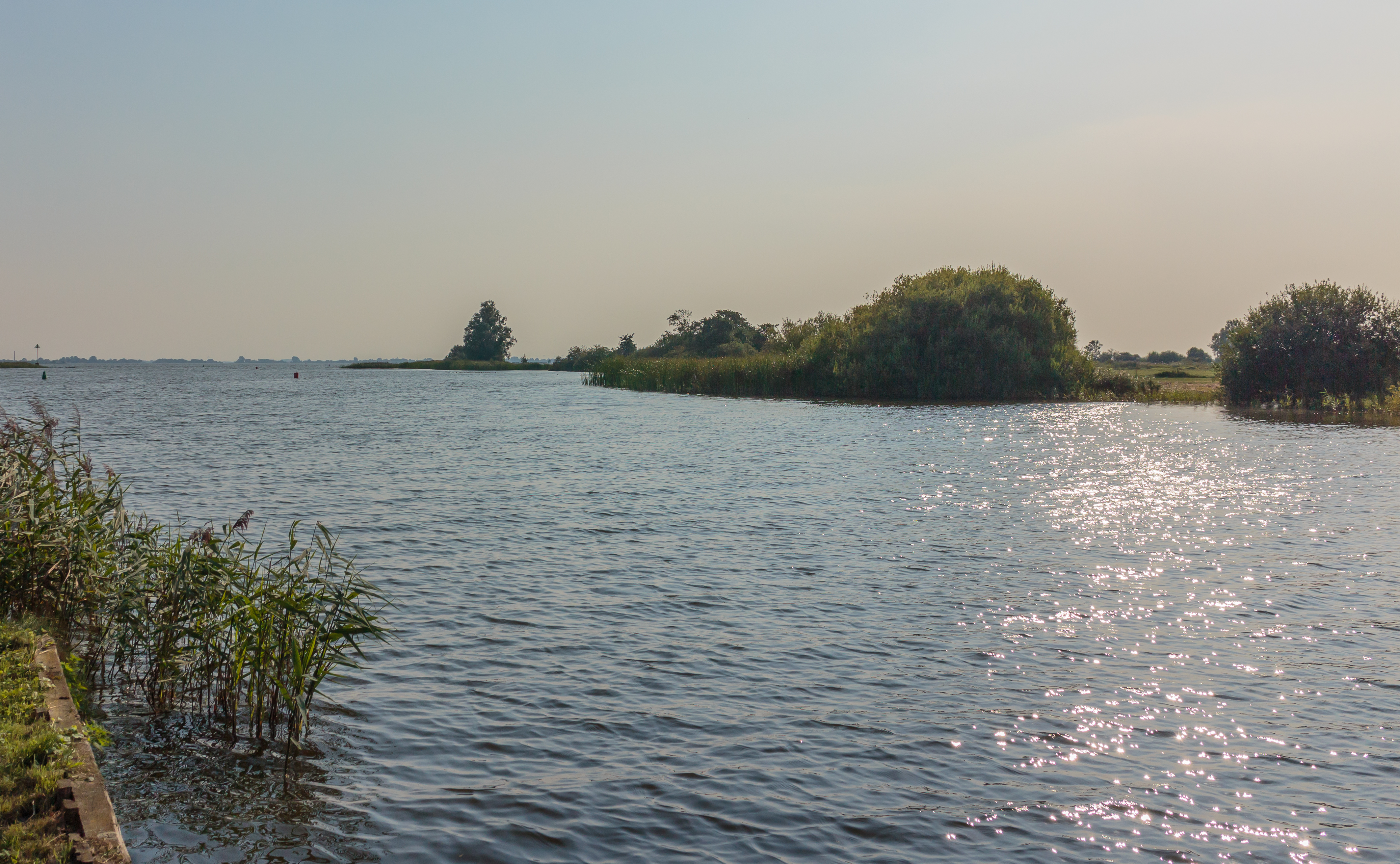 View of the Tjeukemeer (Tsjûkemar) From the Scharsterrijn (Skarster Rien).